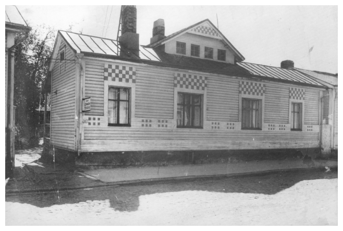 Oulun Leimasintehdas Oy (Ltd) building on Asemakatu street in Oulu.